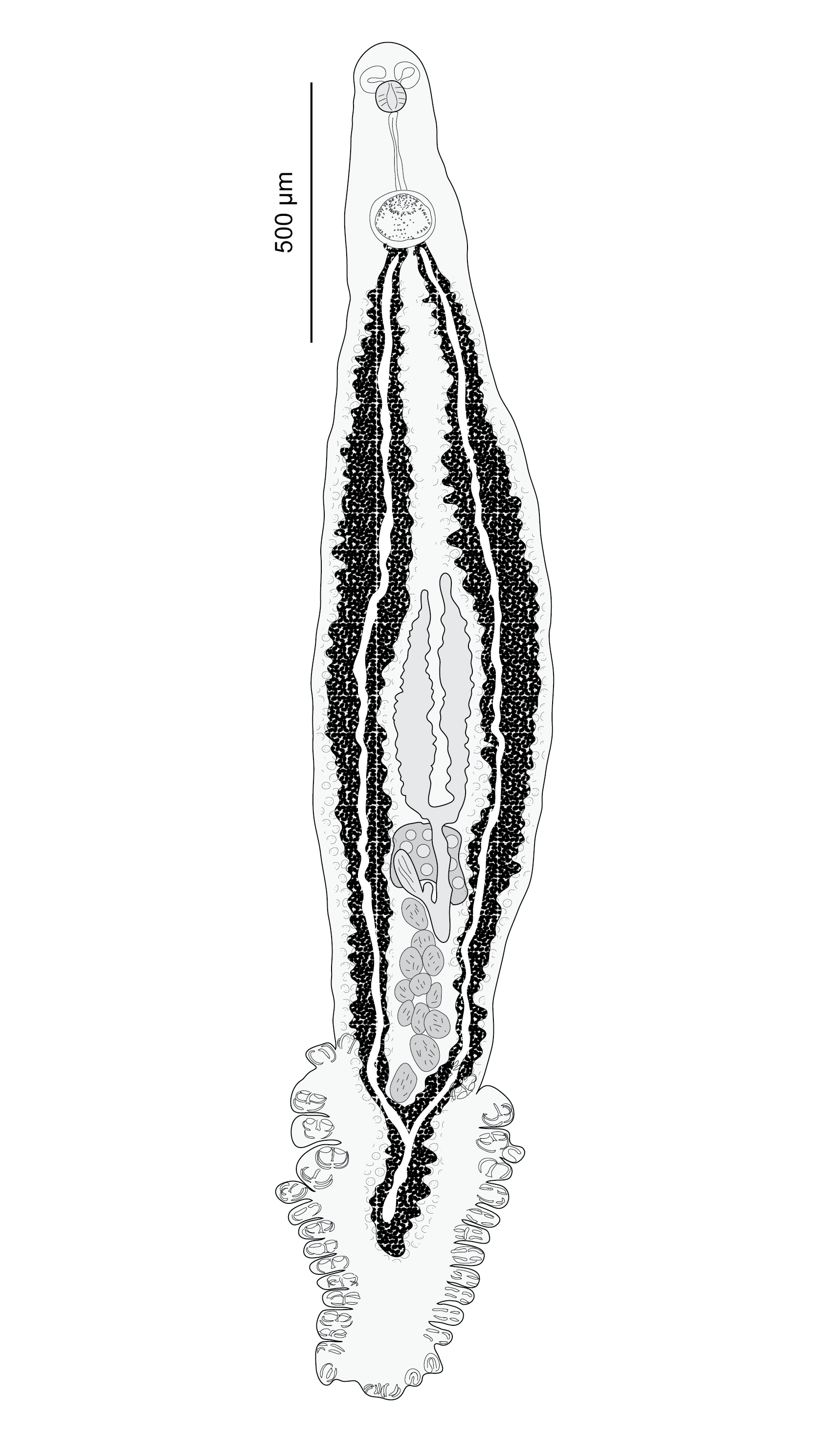 Microcotyle algeriensis (Microcotylidae). This drawing is similar to, but different from, the image published in: (2017). "A new species of Microcotyle (Monogenea: Microcotylidae) from Scorpaena notata (Teleostei: Scorpaenidae) in the Mediterranean Sea". Parasitology International 66 (2): 37–42. ISSN 13835769.